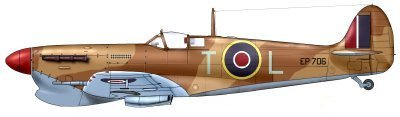 Beurling's Spitfire VC in which he scored most of his victories in Malta. Removed digital signature Imansola.